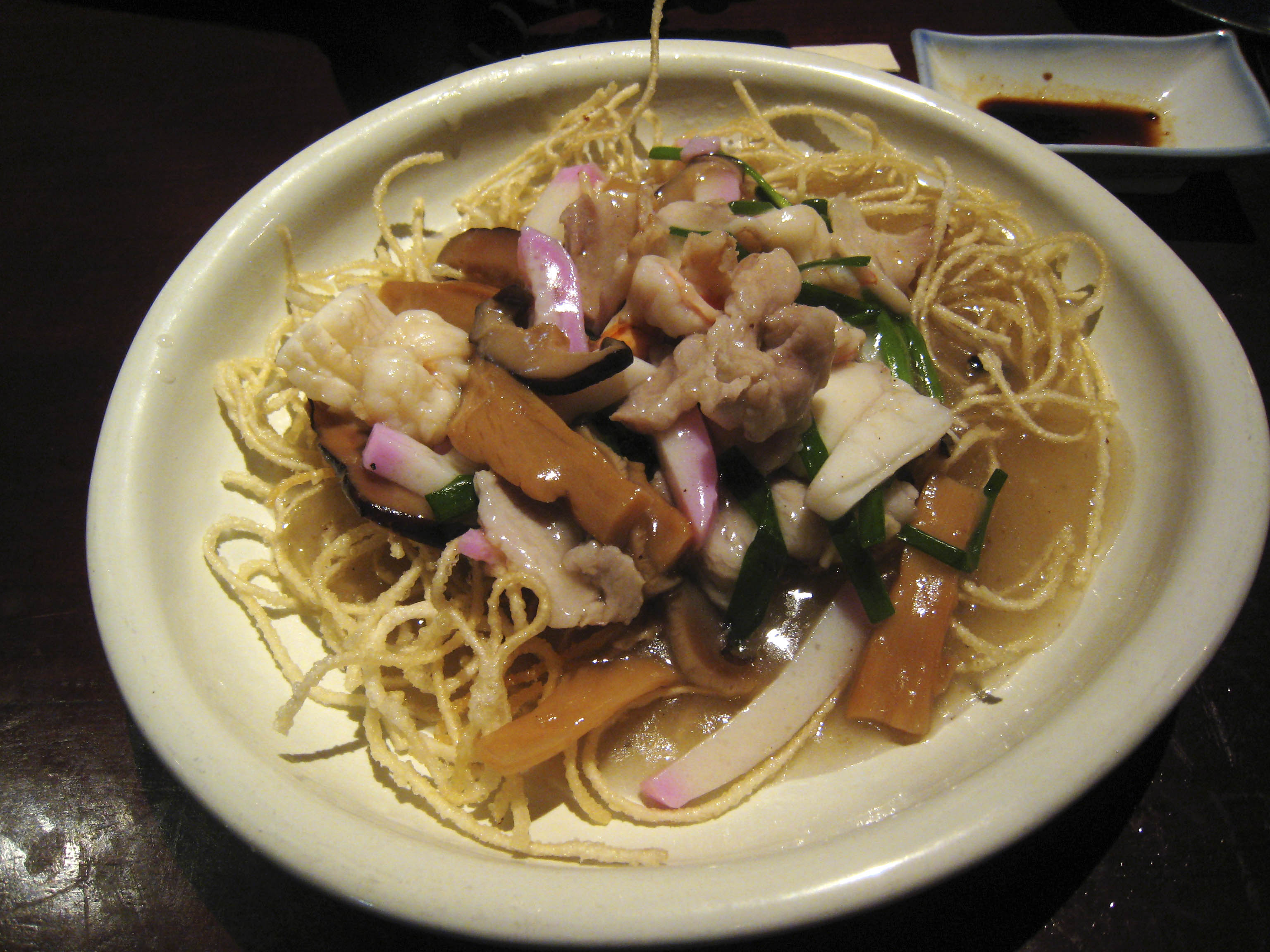 Nagasaki style fried noodles with seafoodSara Udon